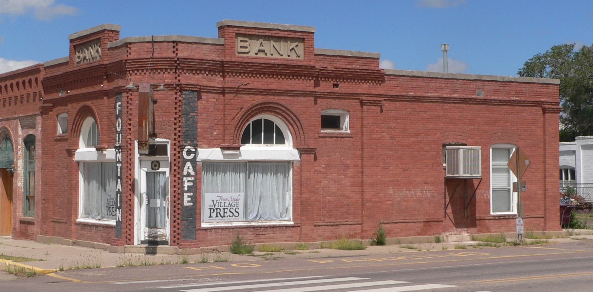 Bank of Magdalena building, located at north corner of First Street (U.S. Highway 60) and Main Street in Magdalena, New Mexico; seen from the south.